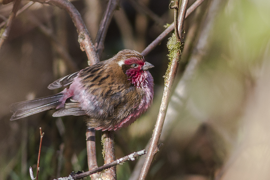 The species White-browed Rosefinch (♂) was seen at Pangolakha Wildlife Sanctuary in Sikkim, India during GoingWild's birding trip on 17.04.2015.